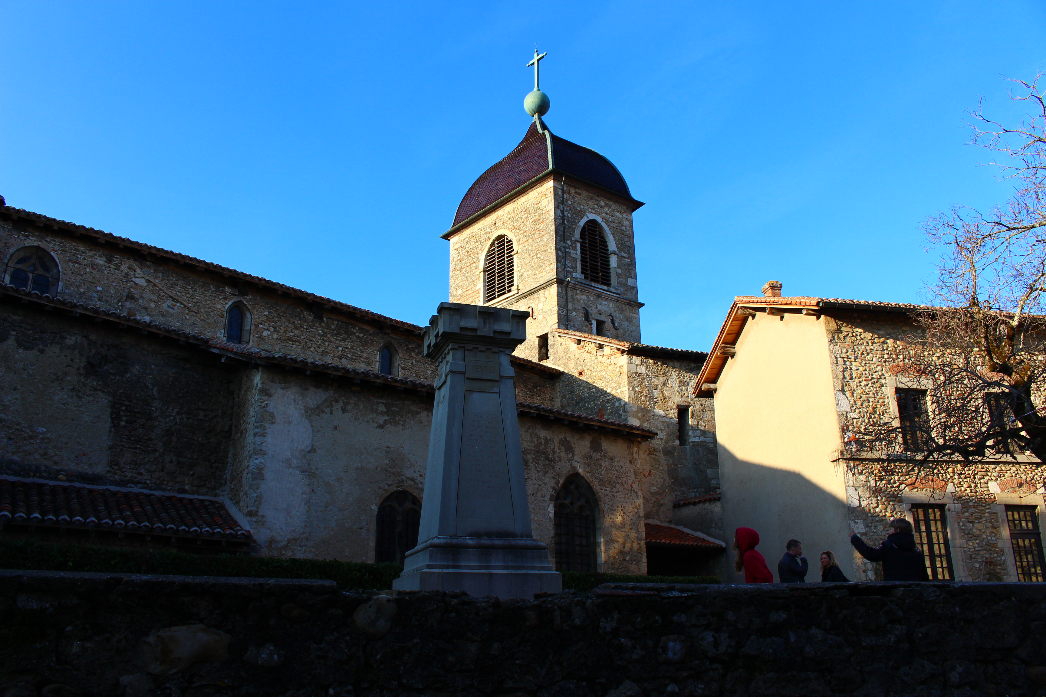 The Church of Pérouges (Ain, France).